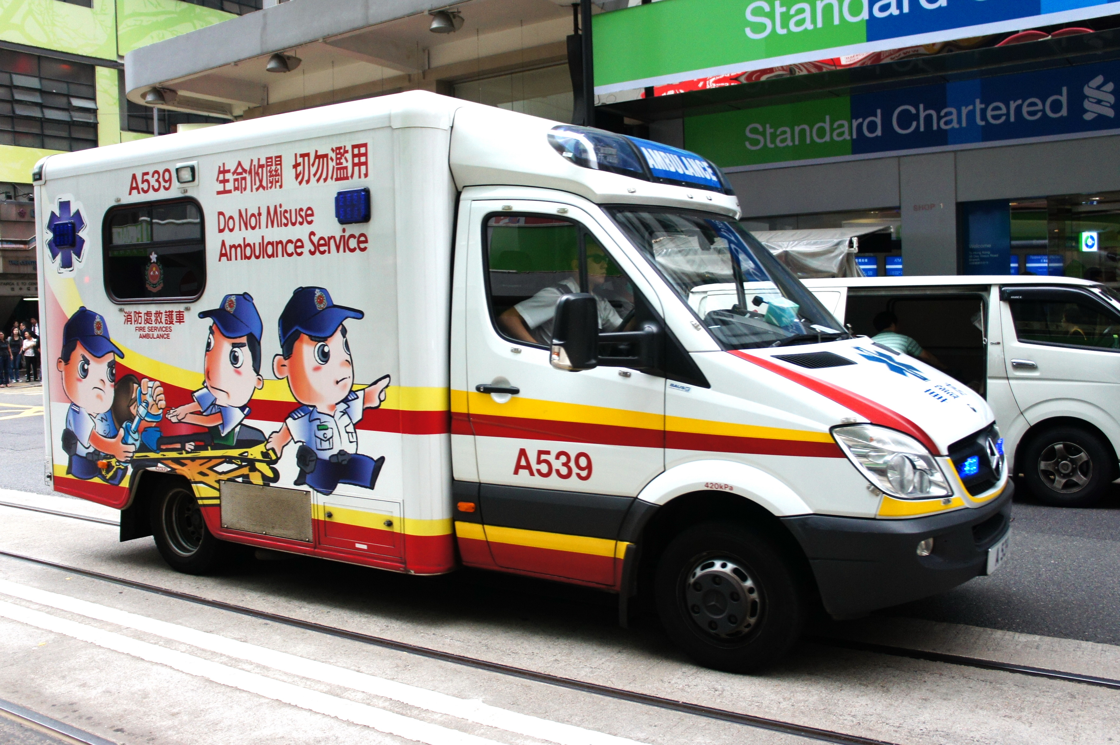 Hong Kong Fire Services Department Ambulance license no. A539 (Mercedes Benz Sprinter 516CDi)